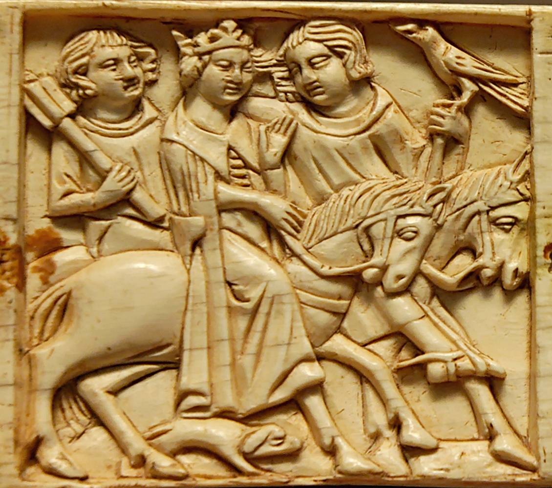 Riding couple, detail from a casket panel about Tristan and Iseult. Ivory, Paris, 1340–1350.